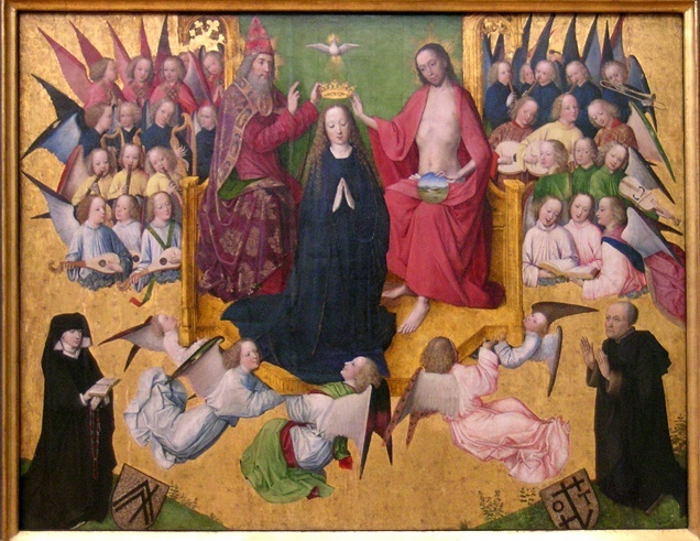 Coronation of Mary